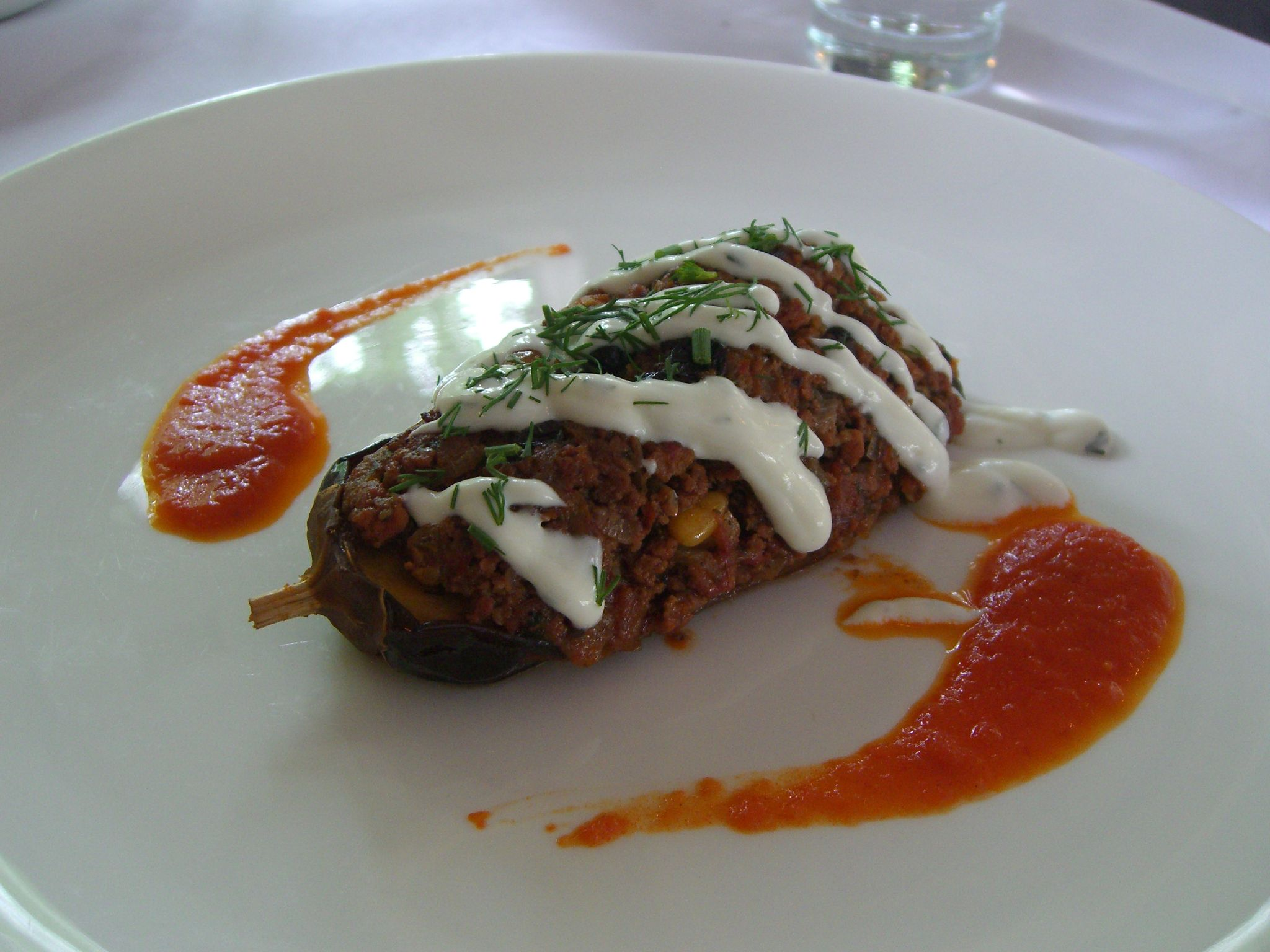 Karniyarik eggplant stuffed with minced lamb from Ottoman Cuisine. Barton